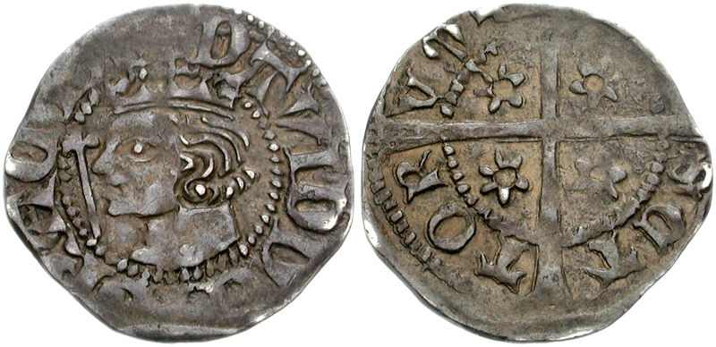 Scotland. David II of Scotland. 1329-1371. AR Penny (18mm, 1.31 g, 12h). First coinage, second issue. Edinburgh mint. Struck circa 1351-1357. +DAVID DEI GRACIA, crowned head left; scepter before [REX] SCT TOR Vm+, long cross; mullets in quarters. Burns 2 (fig. 230); SCBI 35 (Ashmolean & Hunterian) -; SCBC 5087 var. (rev. legend).